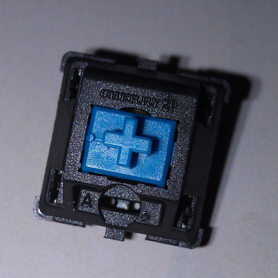 Mechanical keyboard switch, Cherry Blue.